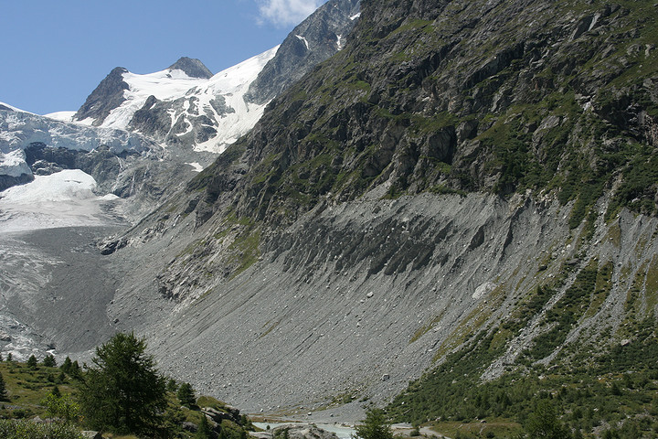 Lateral moraines of the reducing glacier of Ferpècle, in the Evolène region (Wallis, Switzerland).